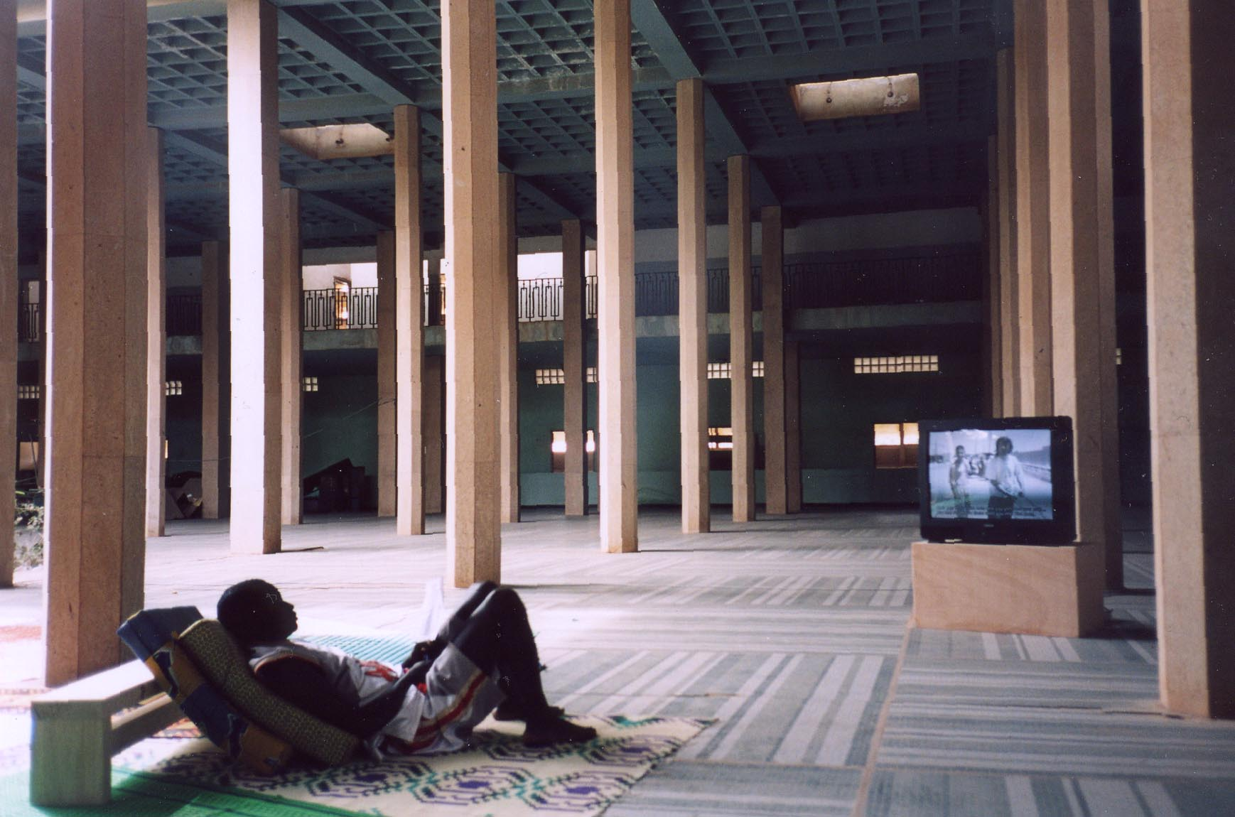 Dakar Biennale 2004. Photo by Iolanda Pensa.